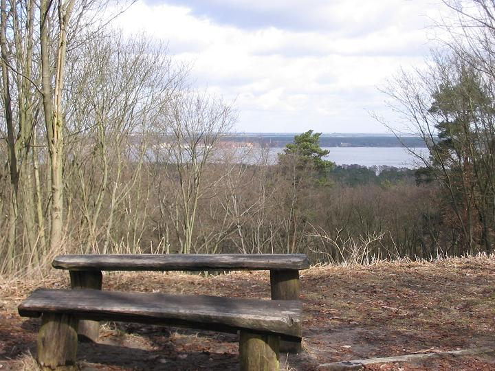 Müggelberge (Müggel hills) in Berlin-Treptow-Köpenick. View from „Großen Müggelberg“ to Müggelsee.